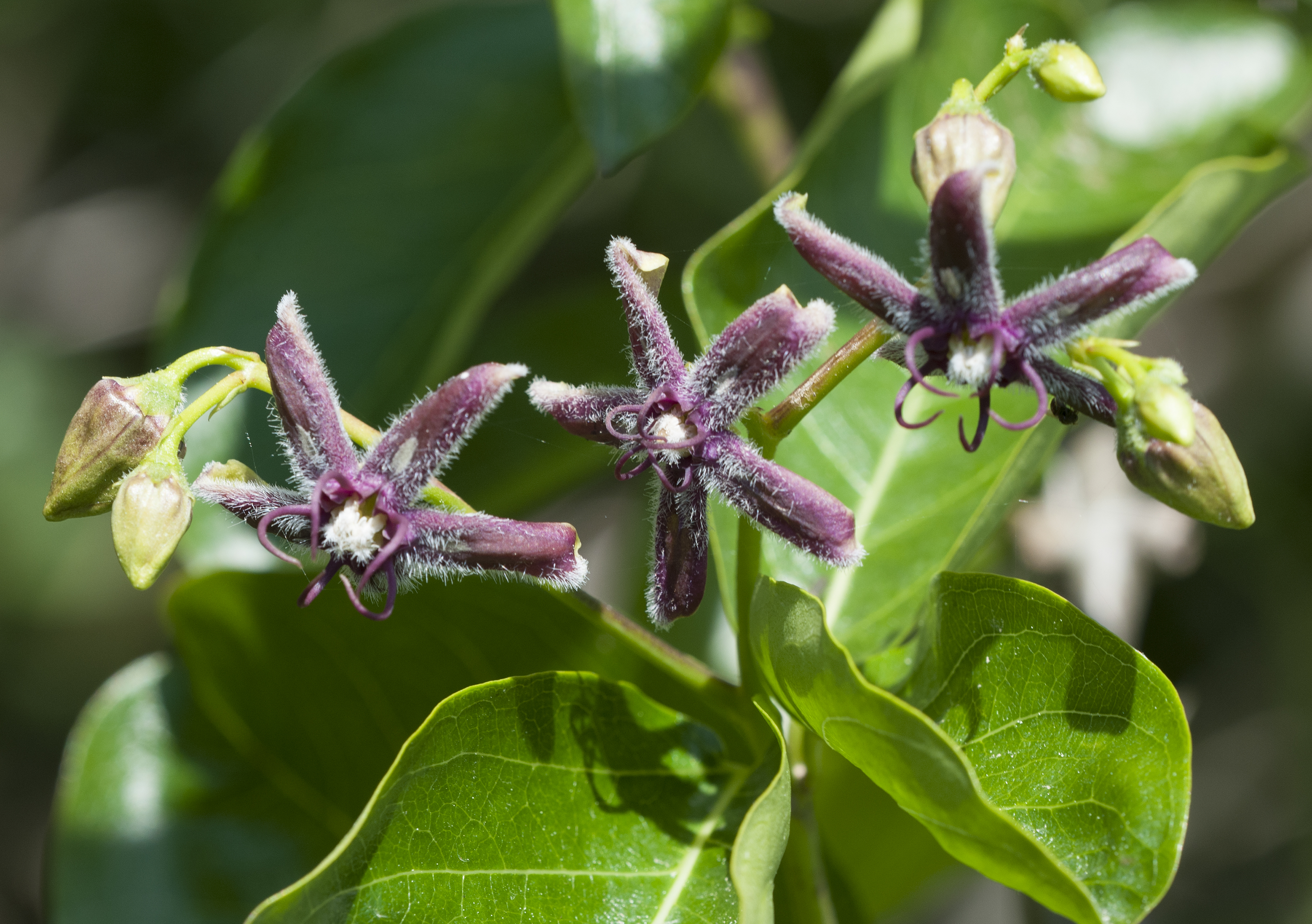 Flowers of Silk vine (Periploca graeca) at the side of Akyatan Lagoon in Karataş - Adana, Turkey.